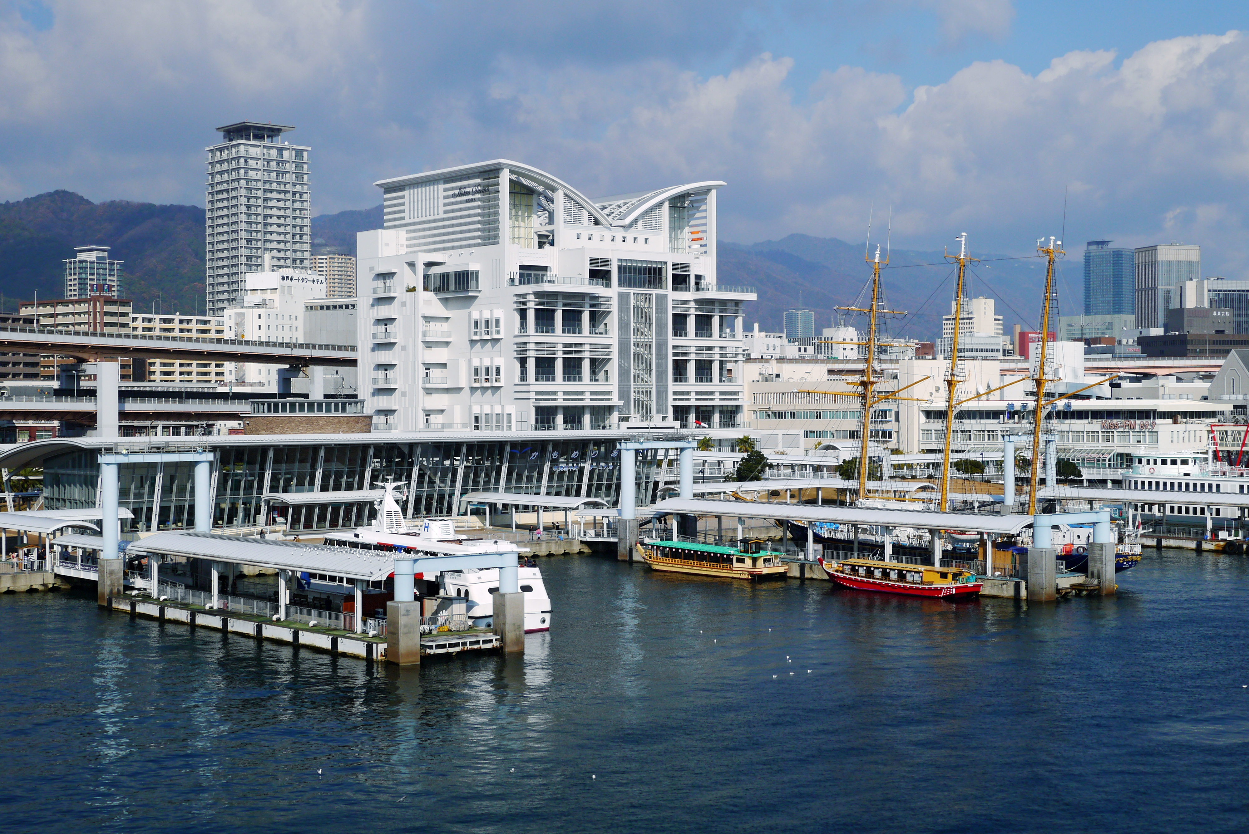 Nakatottei Central Terminal (中突堤中央ターミナル), Kobe, Hyogo prefecture, Japan